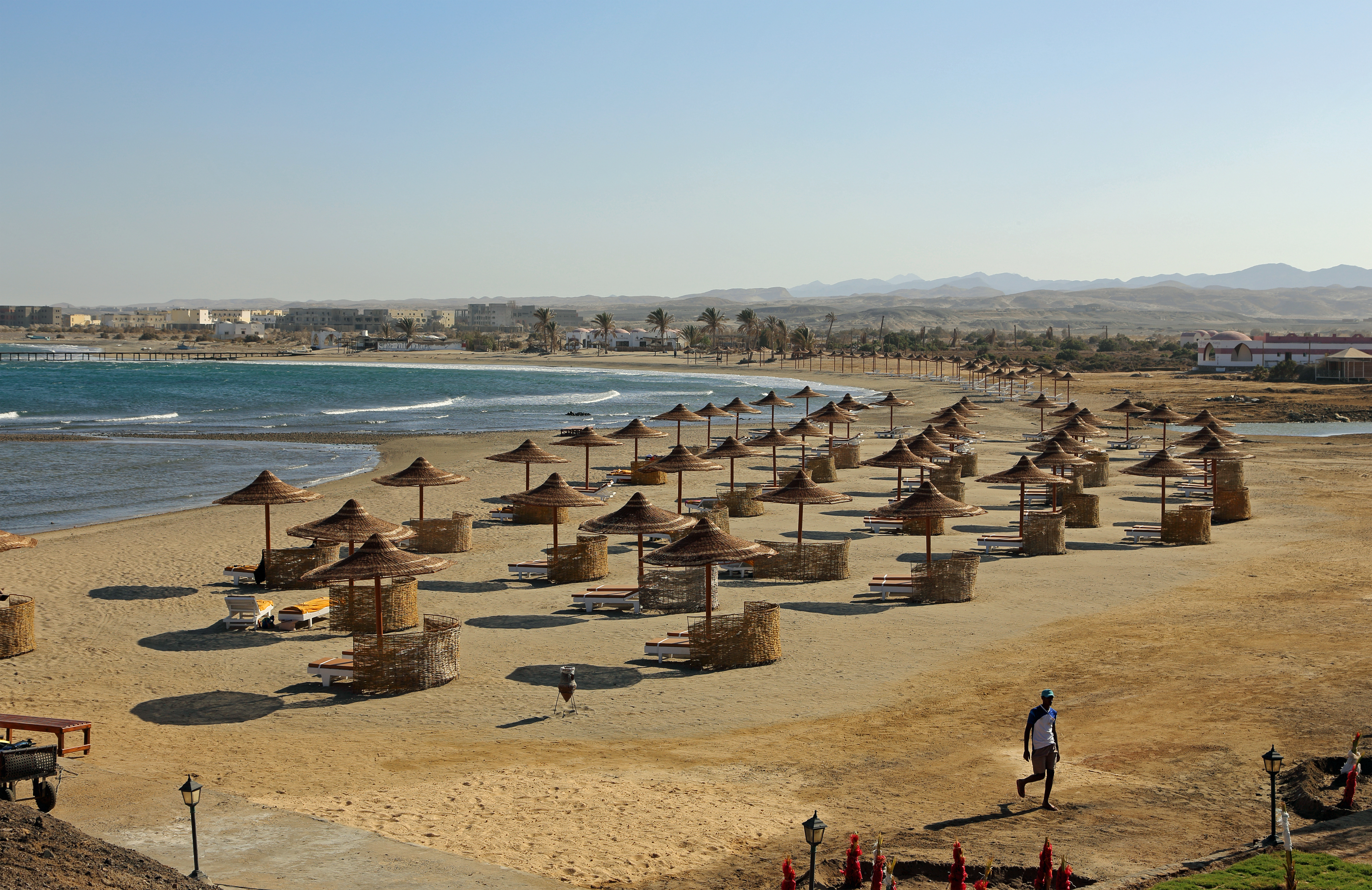 Marsa Alam (Egypt): hotel The Three Corners Equinox Beach Resort - the beach